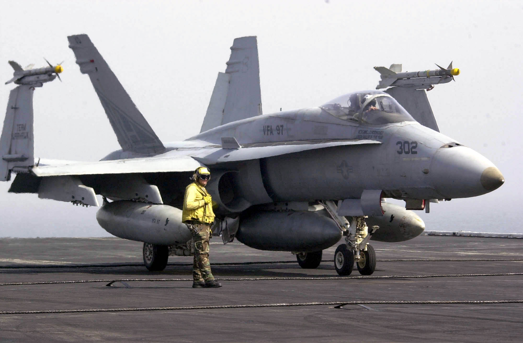 The Arabian Gulf (Jun. 25, 2003) -- A plane director prepares to assist an F/A-18A Hornet from the “Warhawks” of Strike Fighter Squadron 97 (VFA-97) to one of four steam driven catapults during flight operations on the flight deck aboard USS Nimitz (CVN-68). Nimitz Carrier Strike Group and Carrier Air Wing Eleven (CVN-11) are deployed in support of Operation Iraqi Freedom. Operation Iraqi Freedom is the multi-national coalition effort to liberate the Iraqi people, eliminate Iraq’s weapons of mass destruction, and end the regime of Saddam Hussein. U.S. Navy photo by Airman Angel G. Hilbrands. (RELEASED)